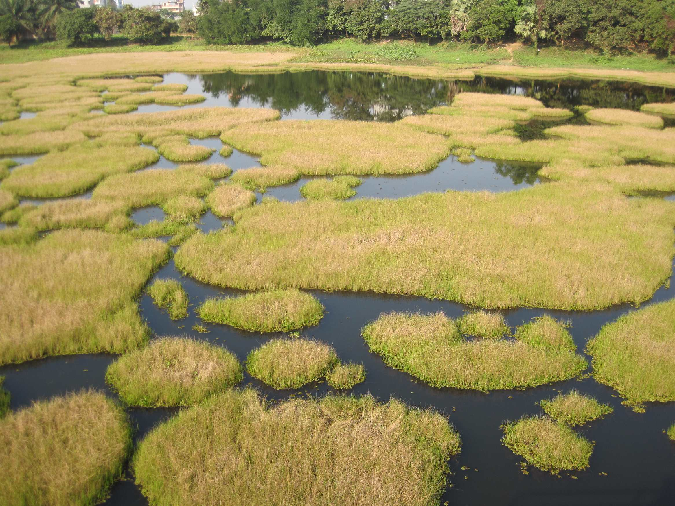 বোটানিক্যাল গার্ডেনের লেকের একাংশ